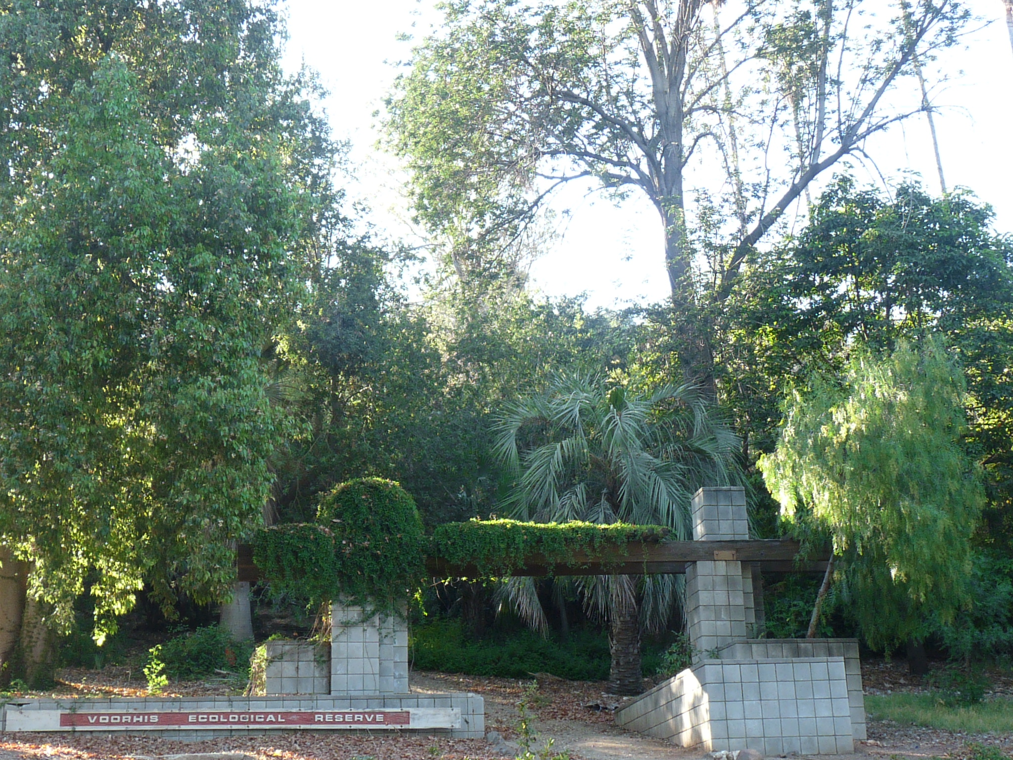 Entrance gate of the Voorhis Ecological Reserve — at California State Polytechnic University, Pomona, Southern California.